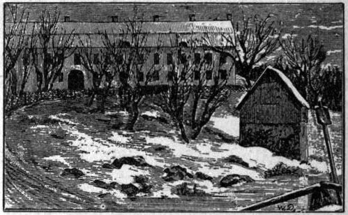 Eriksberg Theatre, Stockholm Sweden. Picture published in Volume 1 (of 8) of Nils Personne’s history of Swedish theatre.